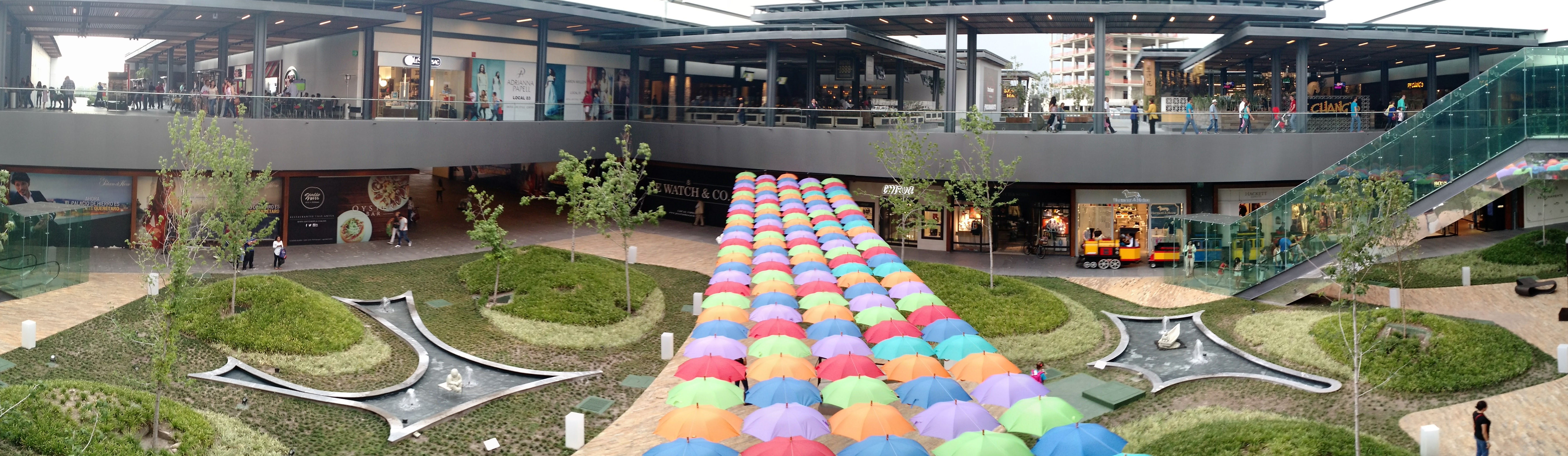 A panoramic picture of one of the gardens in Antea, as seen from above